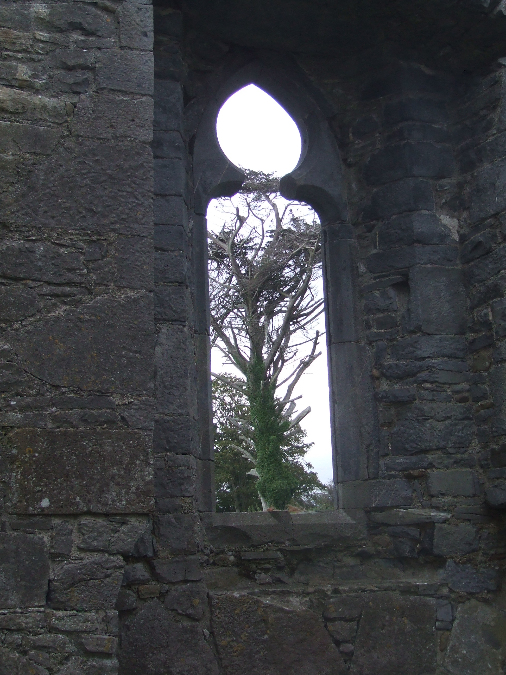 Cusped lancet window in Ardfert Friary, County Kerry, Republic of Ireland